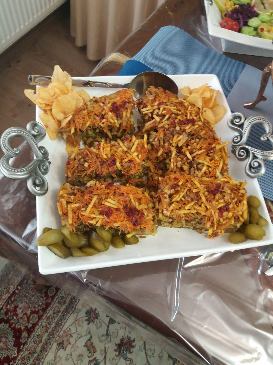 Green bean kuku is a traditional food in Tabriz, Iranian Azerbaijan.